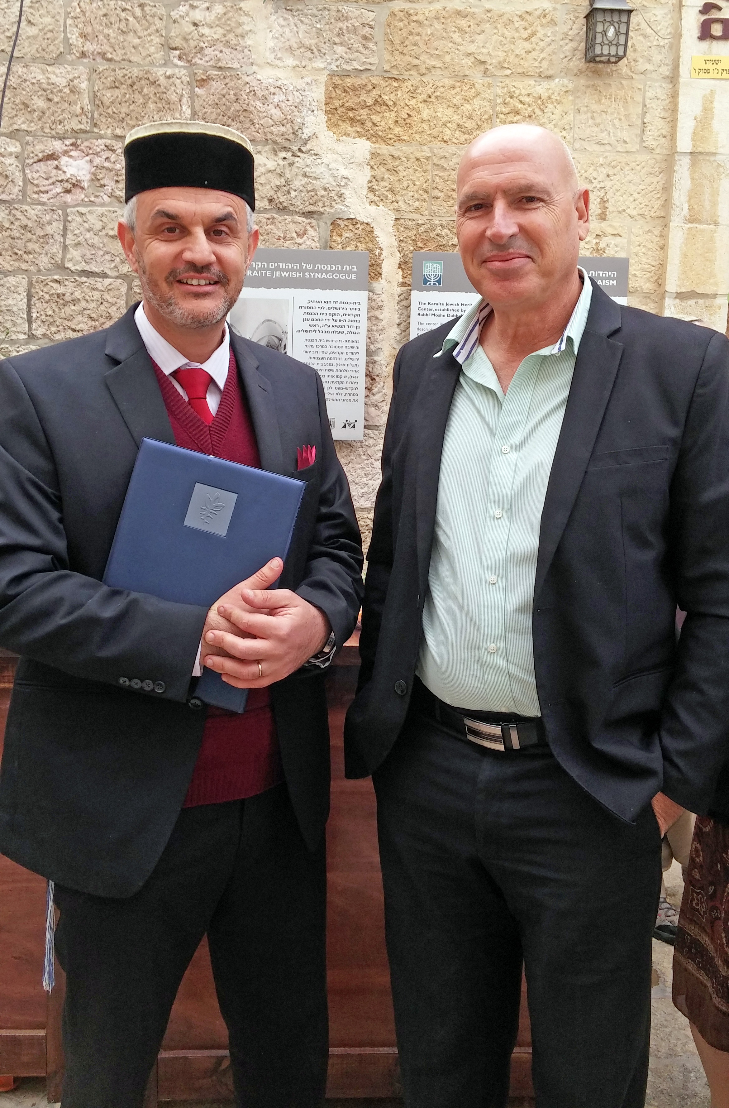 Karaite synagogue and museum in the Jewish Quarter, Jerusalem Israel